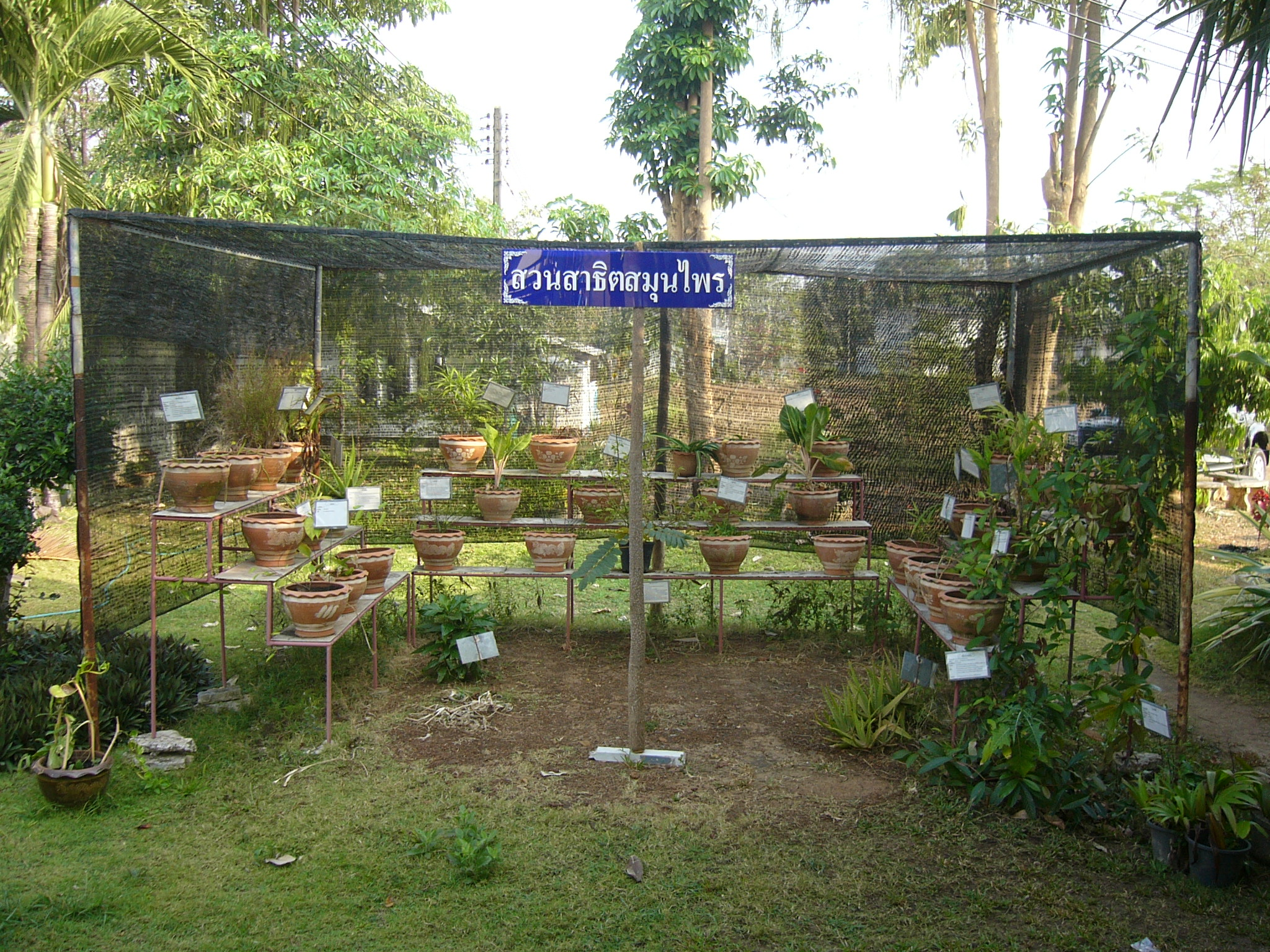 A garden growing medicinal herbs of Na Wa Public hospital, Nakhon Phanom province, Thailand.